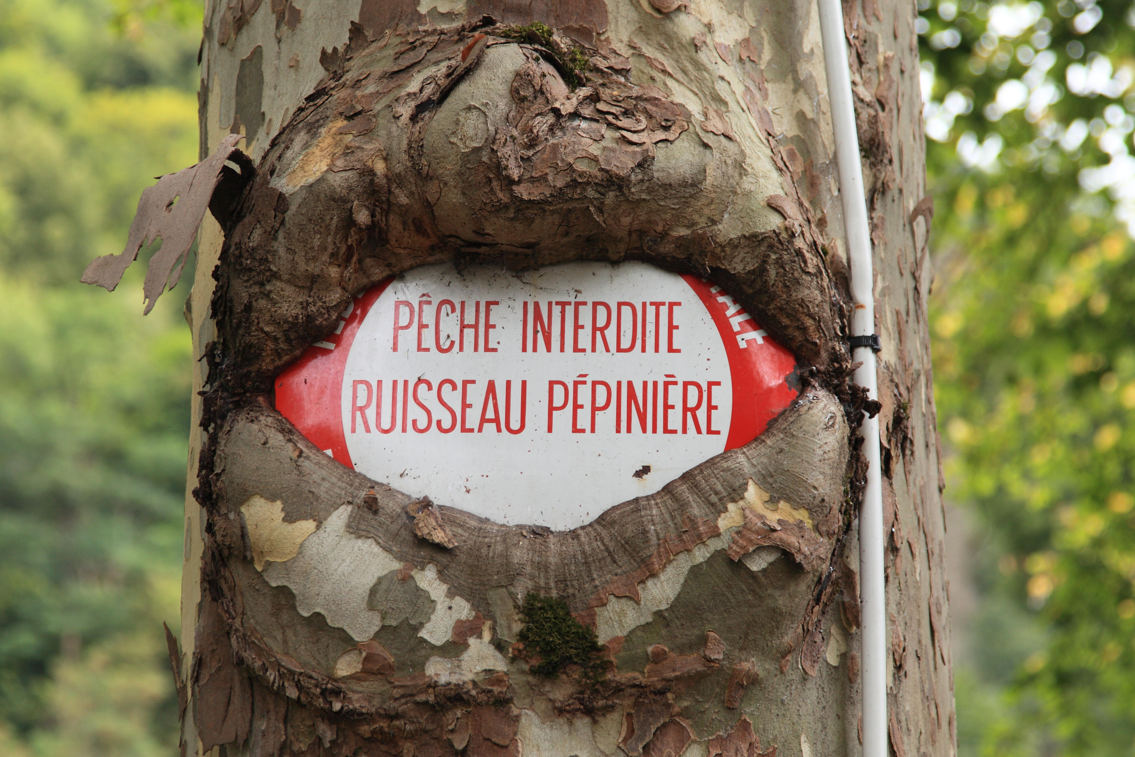 Bagnères-de-Luchon, Haute-Garonne, France - Growth of a tree around a sign. no fishing; nursery stream.